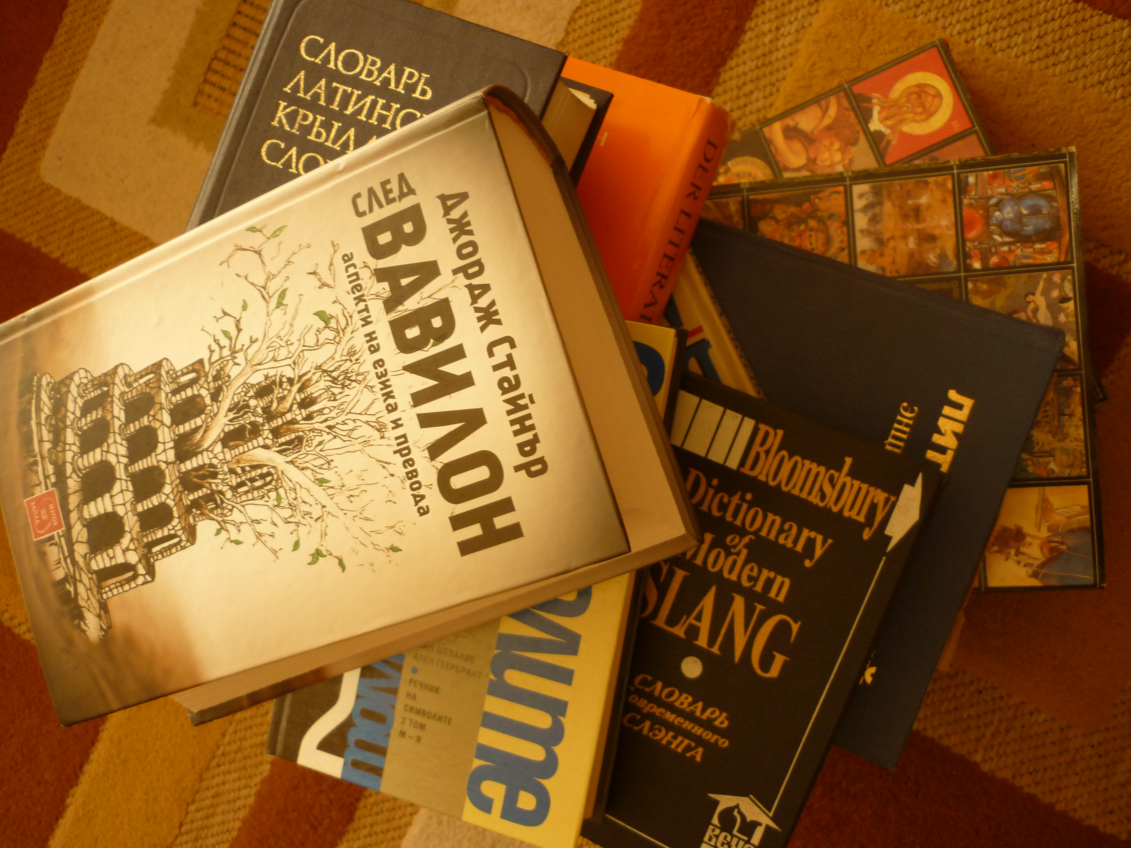 Still life with the Bulgarian edition of After Babel by George Steiner.